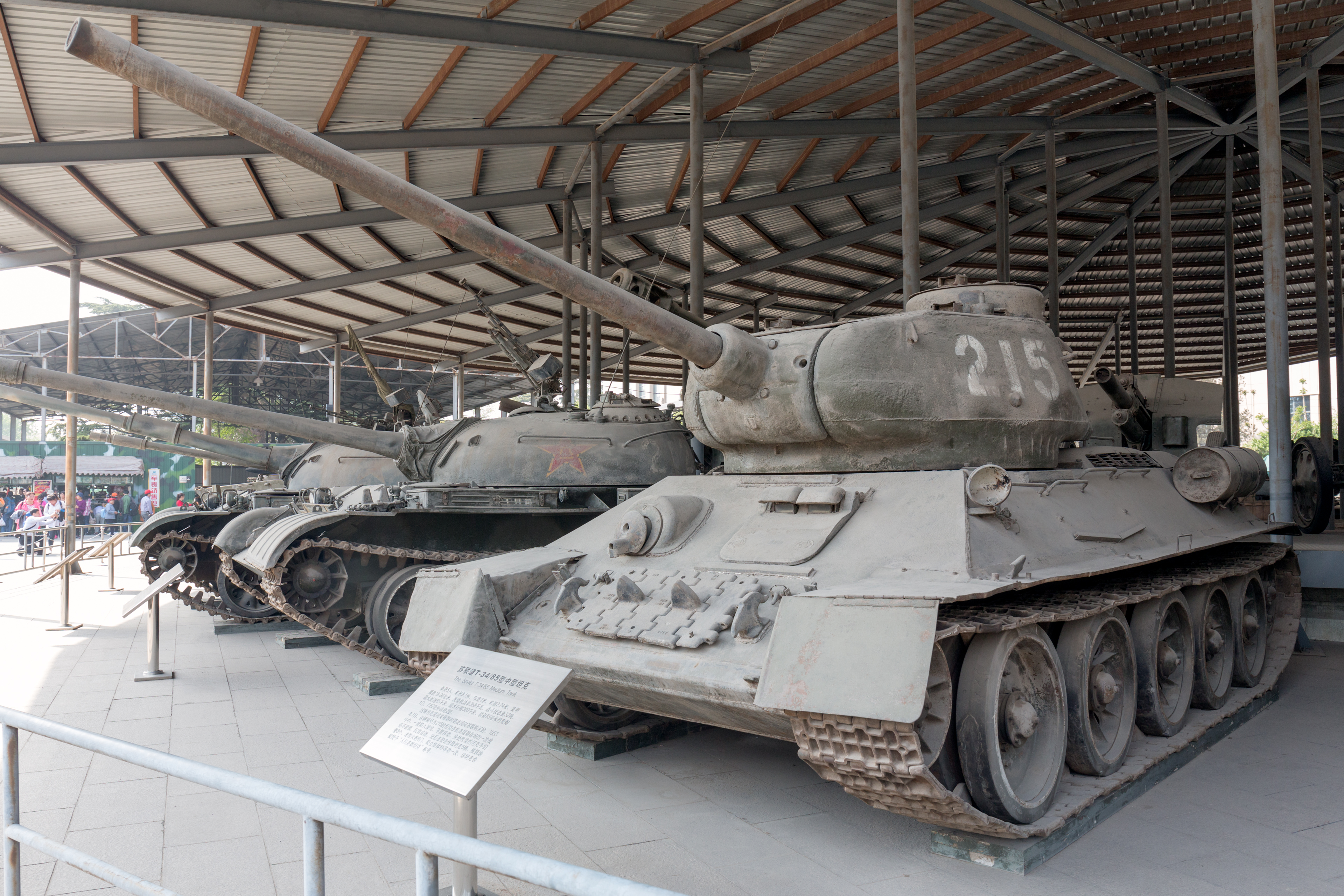 T-34 tank No.215, 4th Company, 4th Tank Regiment, 2nd Tank Division of the People's Volunteer Army(PVA), commanded by Yang Aru, allegedly destroyed four and damaged one U.S. M46 Patton tanks from 6 to 8 July 1953. It also destroyed 20 U.N. bunkers. The tank is now preserved in the Military Museum of the Chinese People's Revolution. The photo was taken on December 3, 2017.